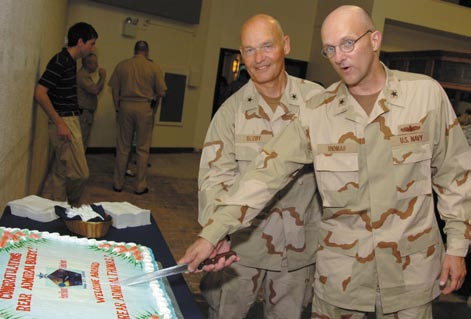 Rear Adm. Mark H. Buzby and Rear Adm. David M. Thomas Jr. share a light moment following Tuesday’s change of command ceremony. – JTF Guantanamo photo by Navy Petty Officer 1st Class Joshua Treadwell